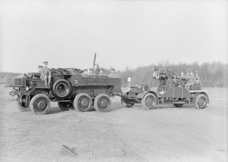 AEC 850, 6 x 6, Artillery Tractor of 15th Heavy Anti-Aircraft Battery towing a 3 inch Anti-Aircraft Gun. The 3 inch gun is a QF 3 inch 20 cwt on the "cruciform traveling platform".